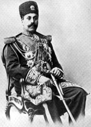 General Isaac Khan Mofakhamed Douley (commonly referred to as Gen. Isaac Khan in the United States) while serving as Envoy Extraordinary and Minister Plenipotentiary for the Persian legation in Washington, D.C..